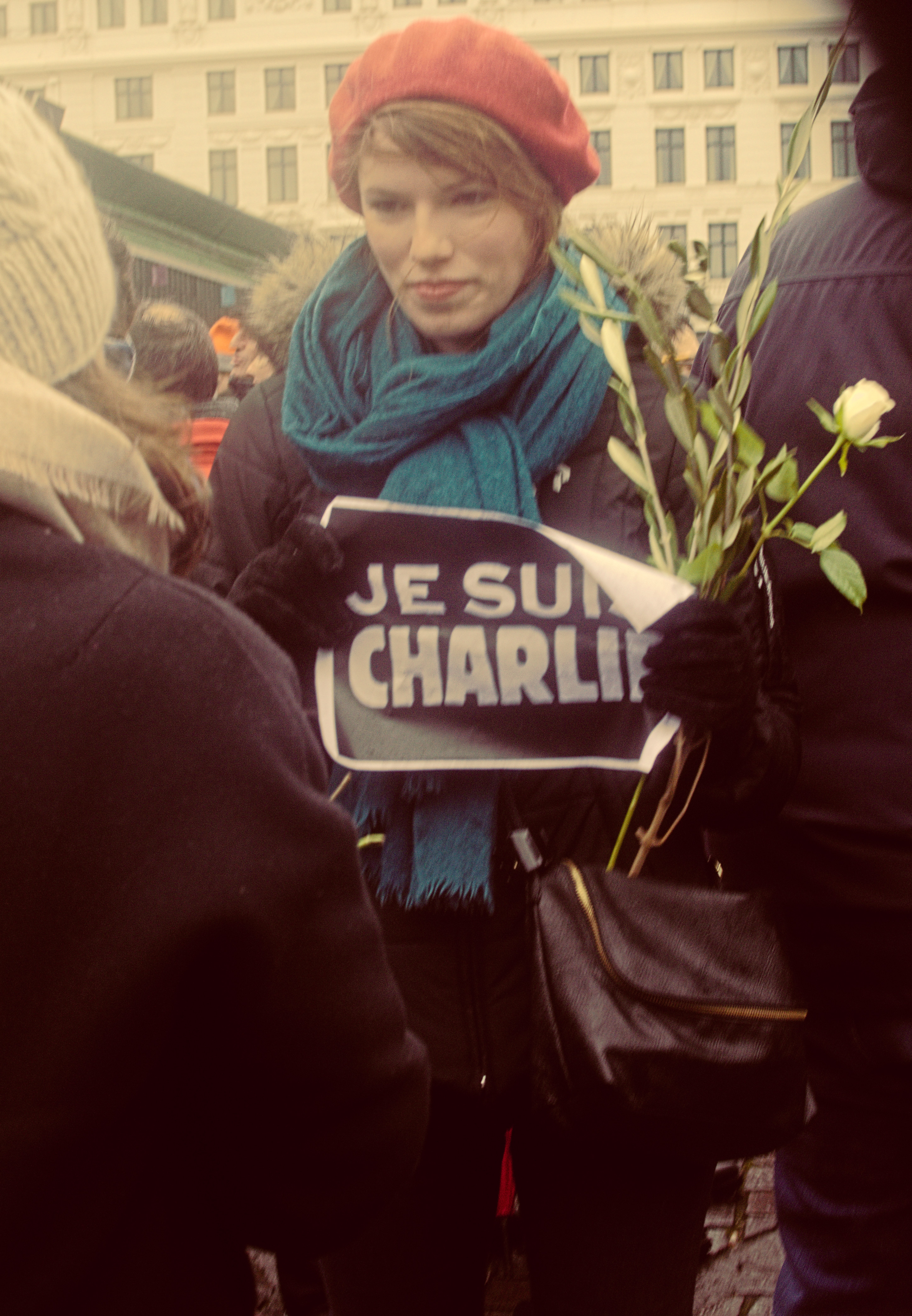 Copenhagen rally in support of the victims of the 2015 Charlie Hebdo shooting.